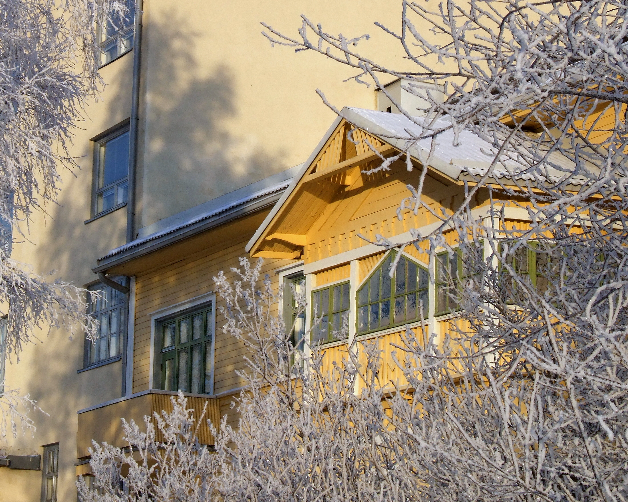 The buildings of Merijal (a former candy factory) in Tuira, Oulu, Finland.